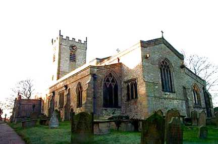 Middleham, The Collegiate Church St Mary and St Alkeda. This Church was designated as a Collegaite Church by Richard 111.